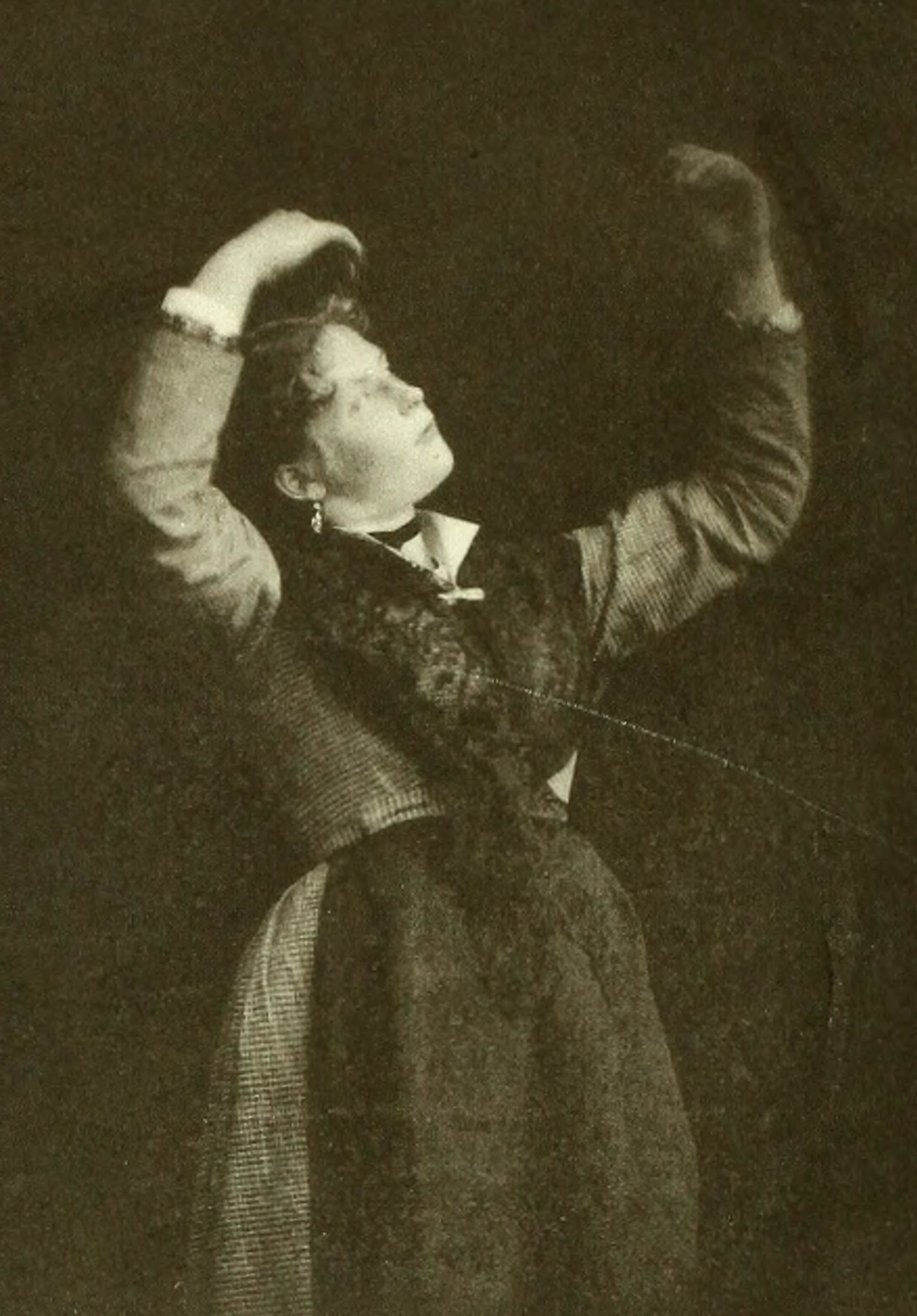 A photograph of Marie "Blanche" Wittman in a cataleptic pose taken around 1880